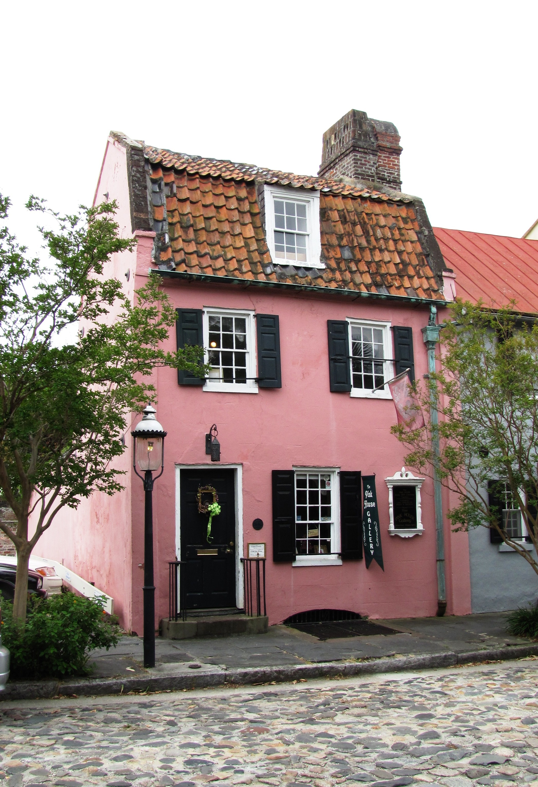 The Pink House, built circa 1712, in Charleston, South Carolina, USA. The house is listed on the National Register of Historic Places as a contributing building in the French Quarter District. As was by then typical of the Architecture of Bermuda, the house was built of limestone from Bermuda (Charleston had been settled from Bermuda under William Sayle in the 1670s, and Bermudians retained close links with the city up to American independence).